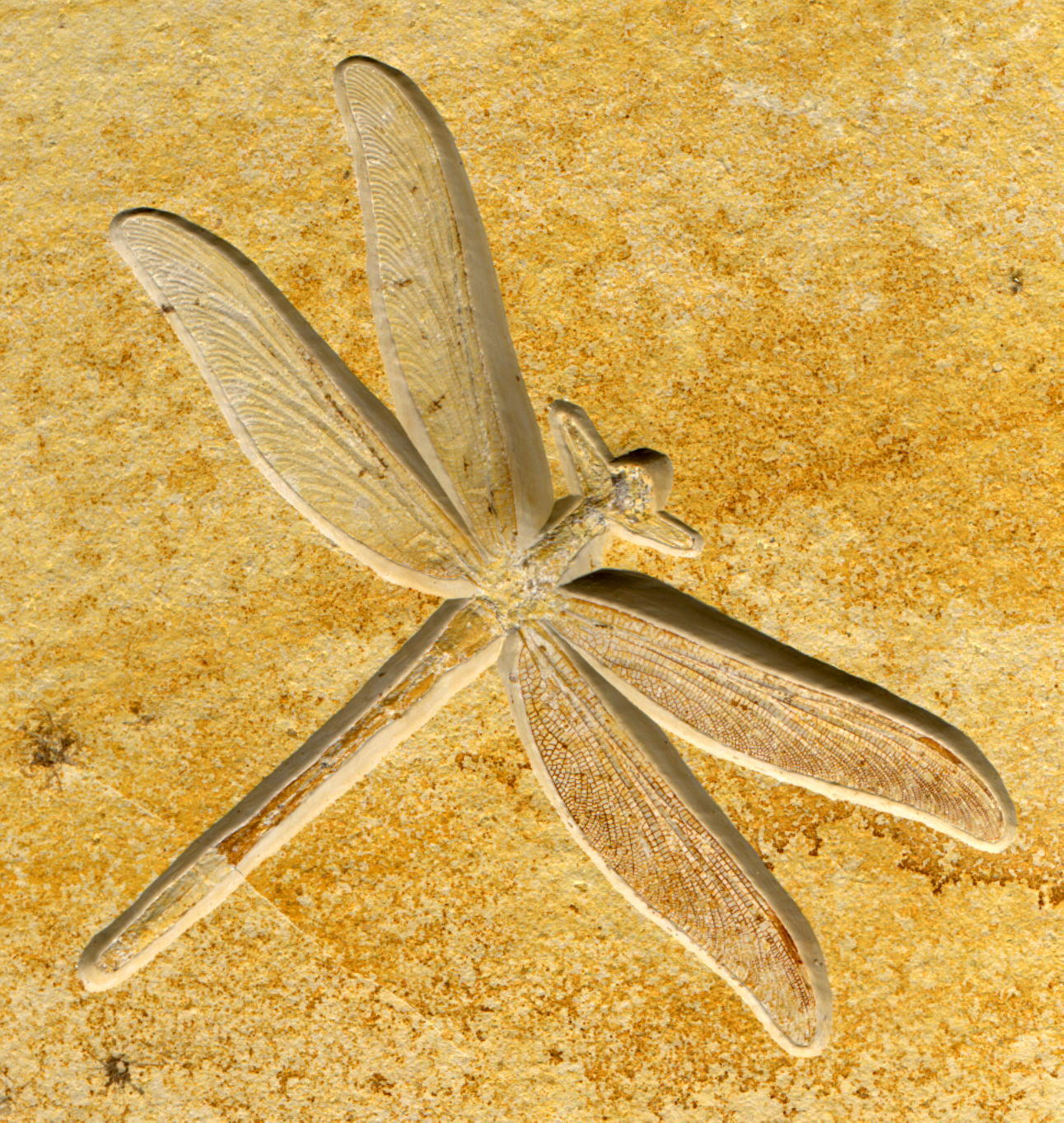 Stenophlebia amphitrite (Odonata: Stenophlebiidae), Upper Jurassic, Solnhofen Plattenkalk, specimen in private collection Stefan Schäfer (Altdorf, Germany)